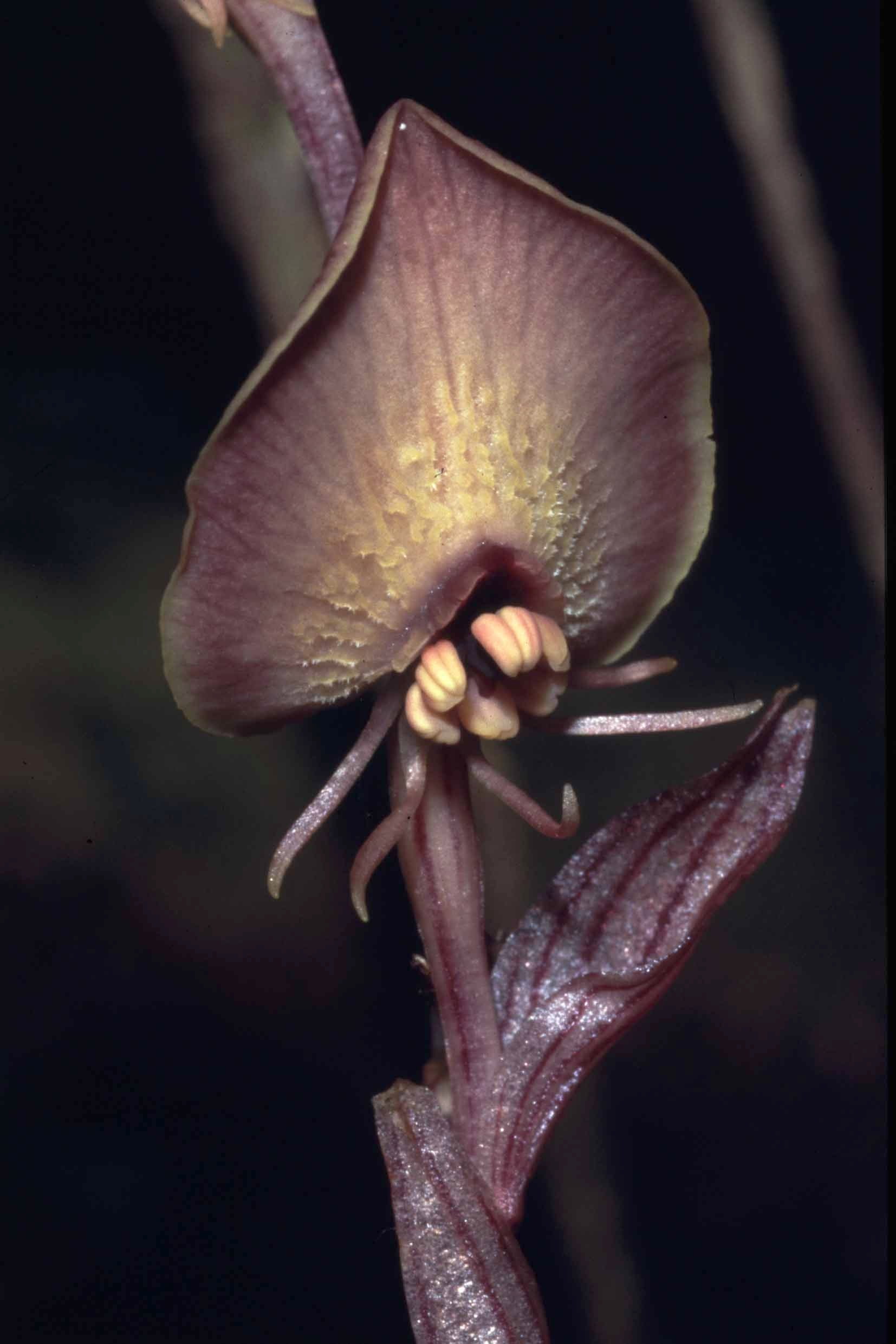 Corsia ornata, flower, Bird's Head Peninsula / Vogelkop, Western New Guinea / West Papua